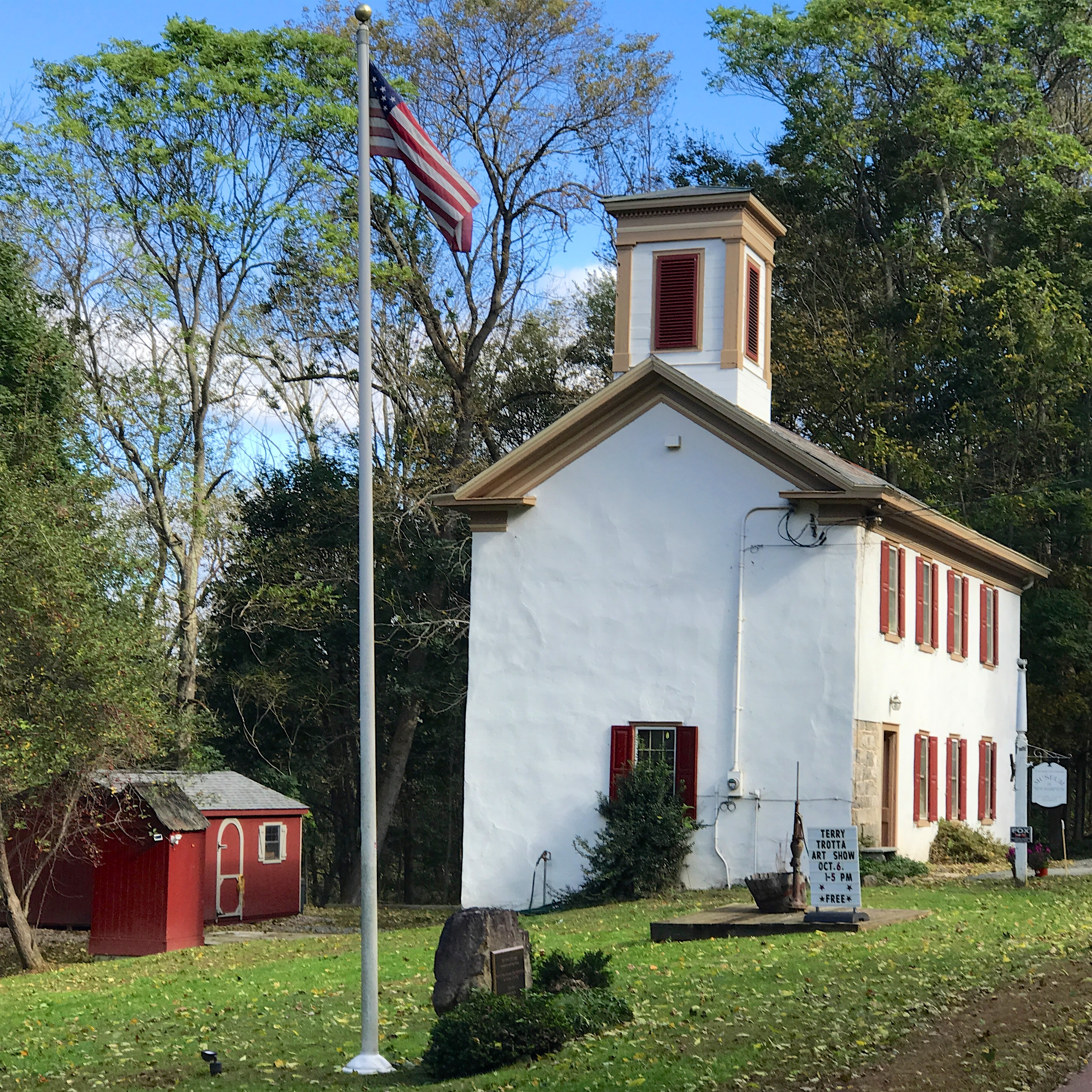 The Lebanon Township Museum in New Hampton, New Jersey. Former schoolhouse, built circa 1825 date QS:P,+1825-00-00T00:00:00Z/9,P1480,Q5727902. Greek Revival style. Memorial to General Daniel Morgan in foreground. Contributing property #15 of the New Hampton Historic District.